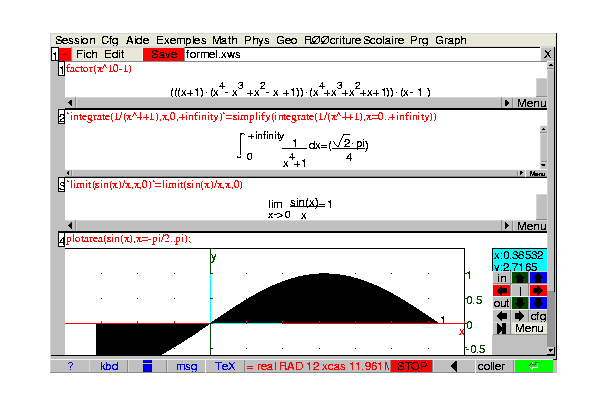 Xcas screenshot